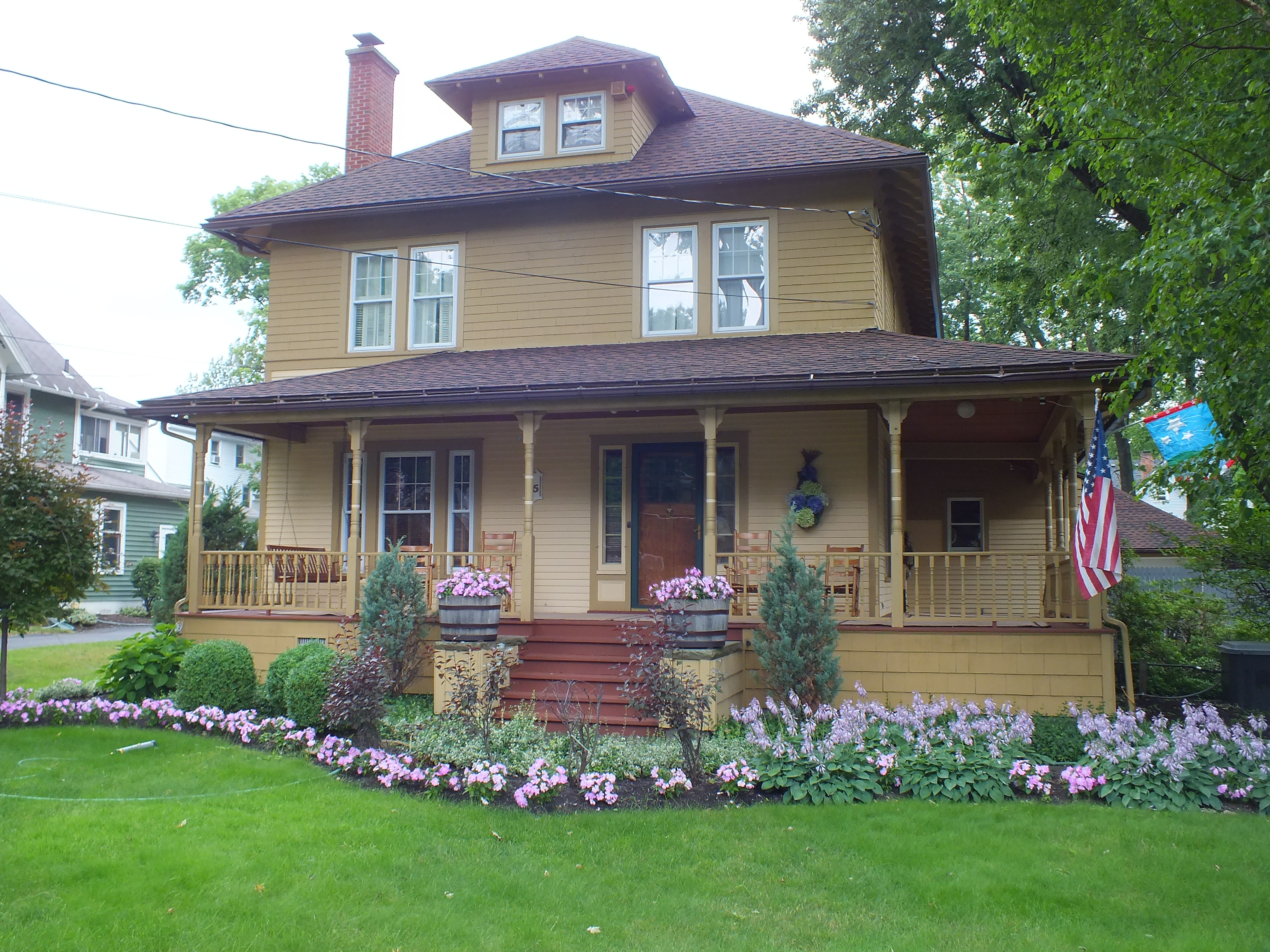 Photo of the 1918 Hamburg, NY, birthplace of author and CIA officer E. Howard Hunt.